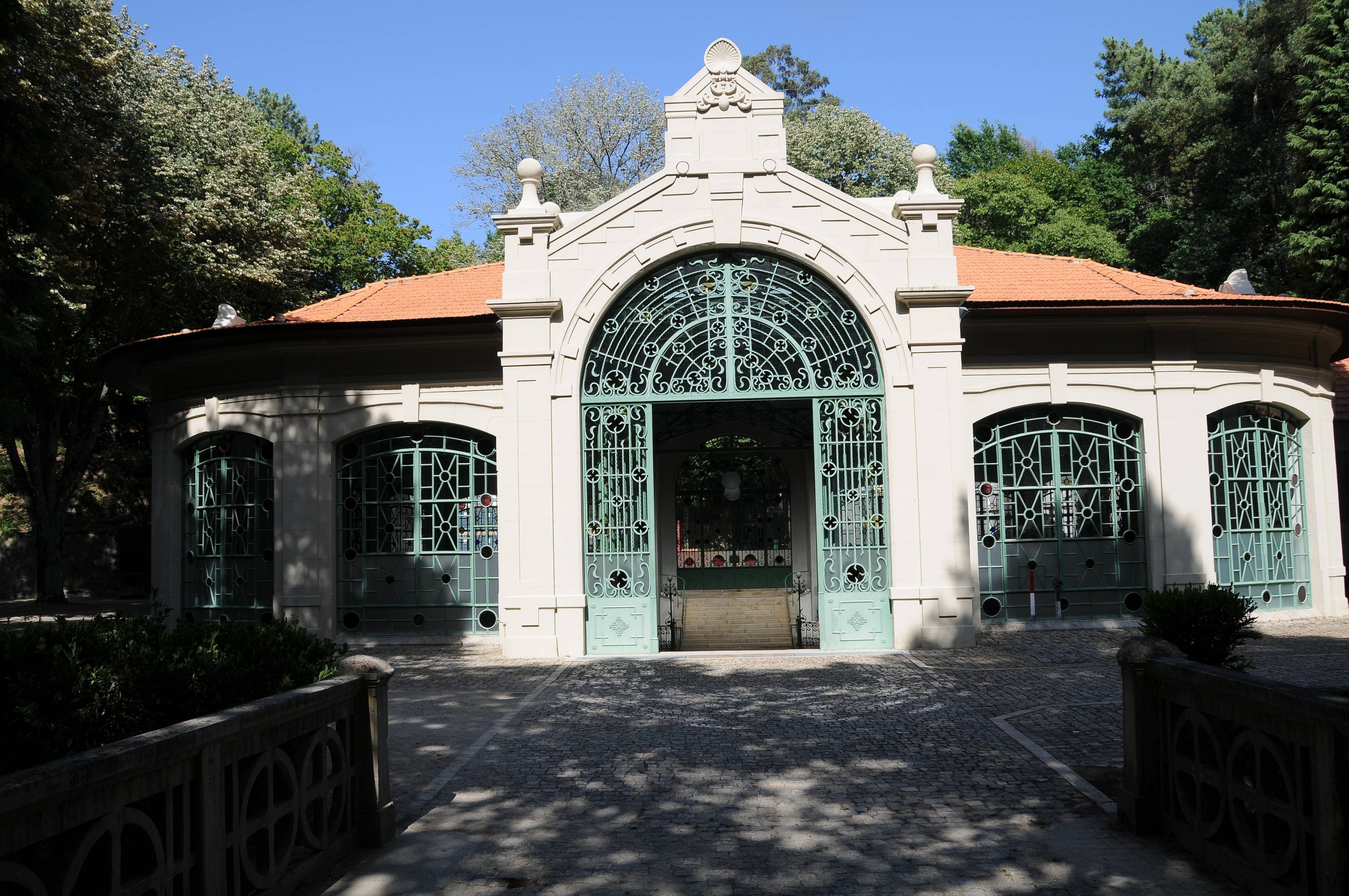 Peso Baths in Melgaço Portugal